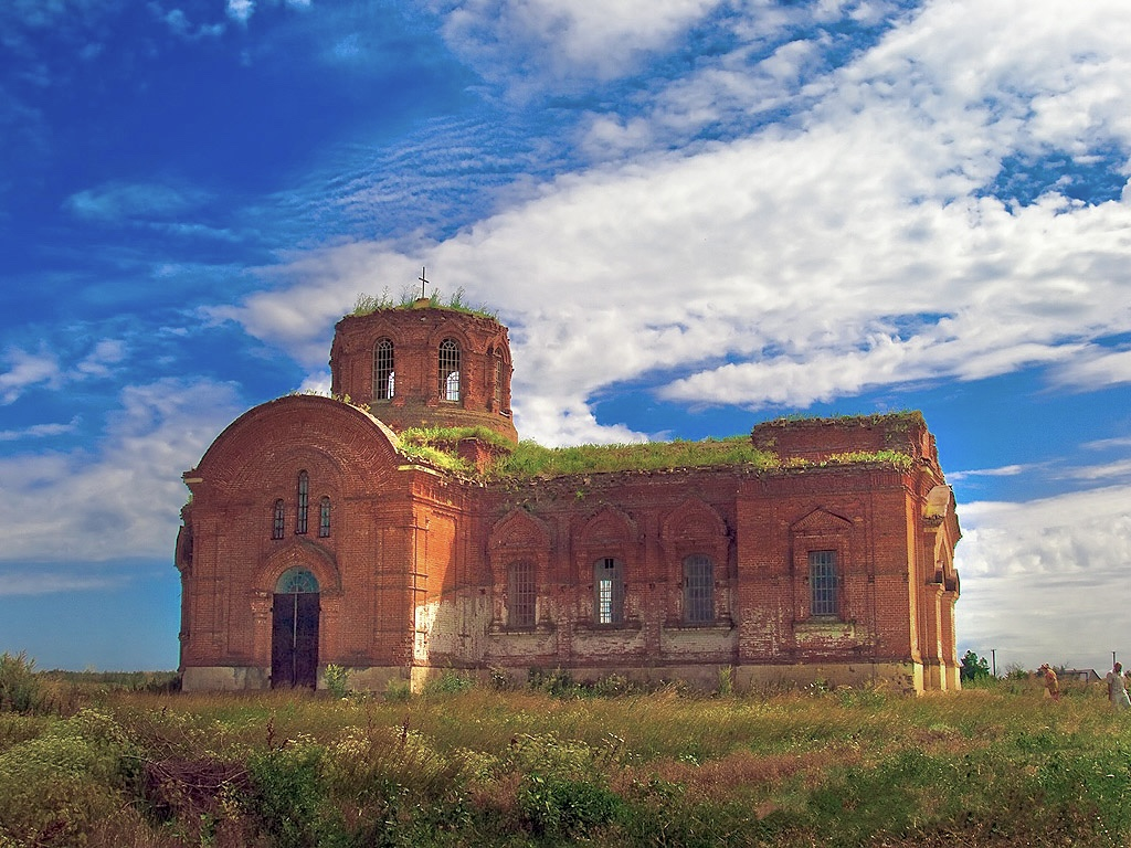 Temple of Archangel Michael in village Tykhonivka, Melitopol Raion, Ukraine